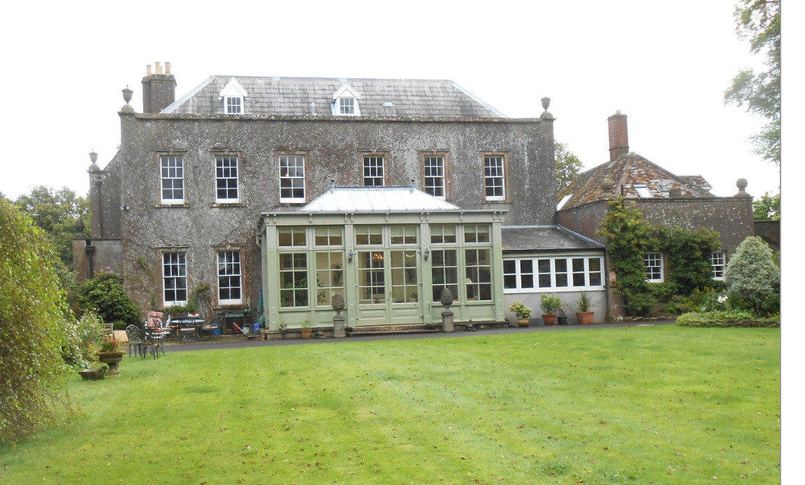 Front of Butcombe Court